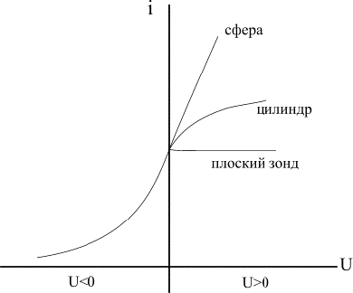 Probe VAC (shape)